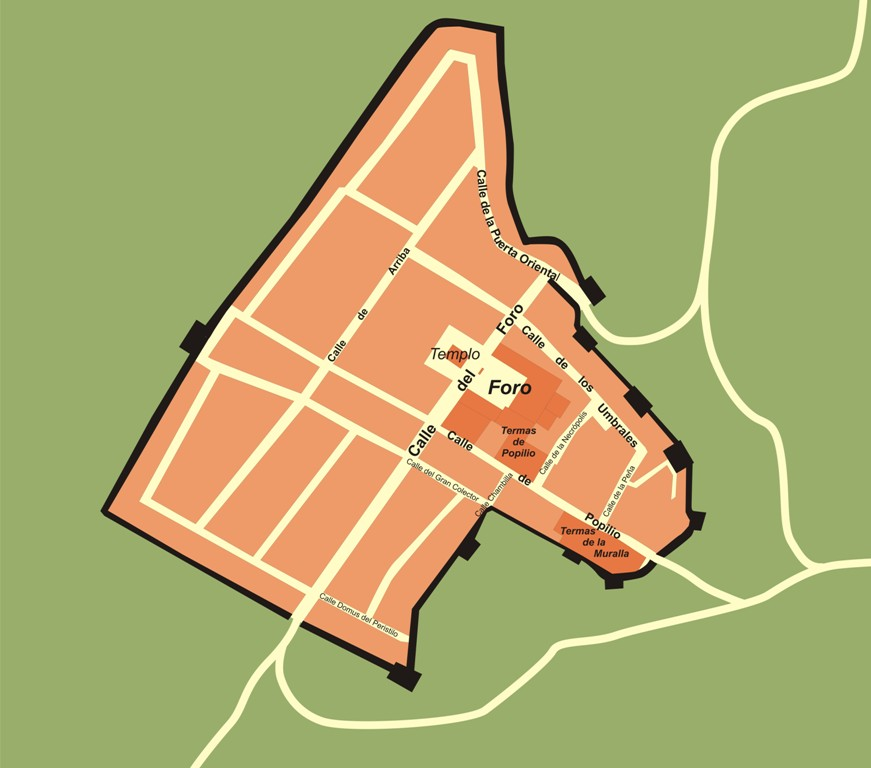 Hypothetical map of Lucentum (nowadays Alicante around 1st century a.C.E. In light colour there appear residential areas, in deep colour principal buildings and in black the fortification. Named streets have been excavated, the course of the rest is hypothetical.